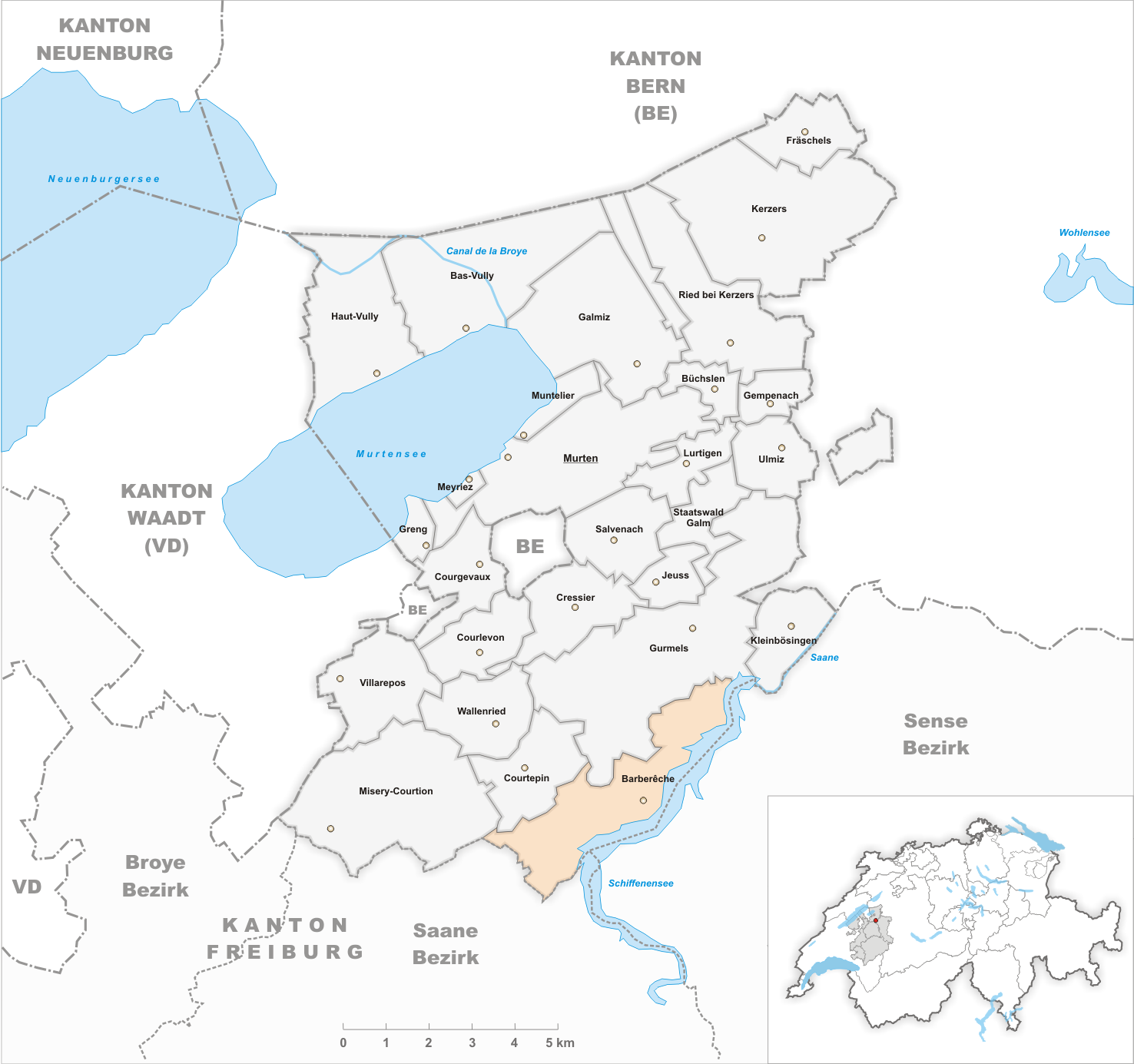 Municipality Barberêche